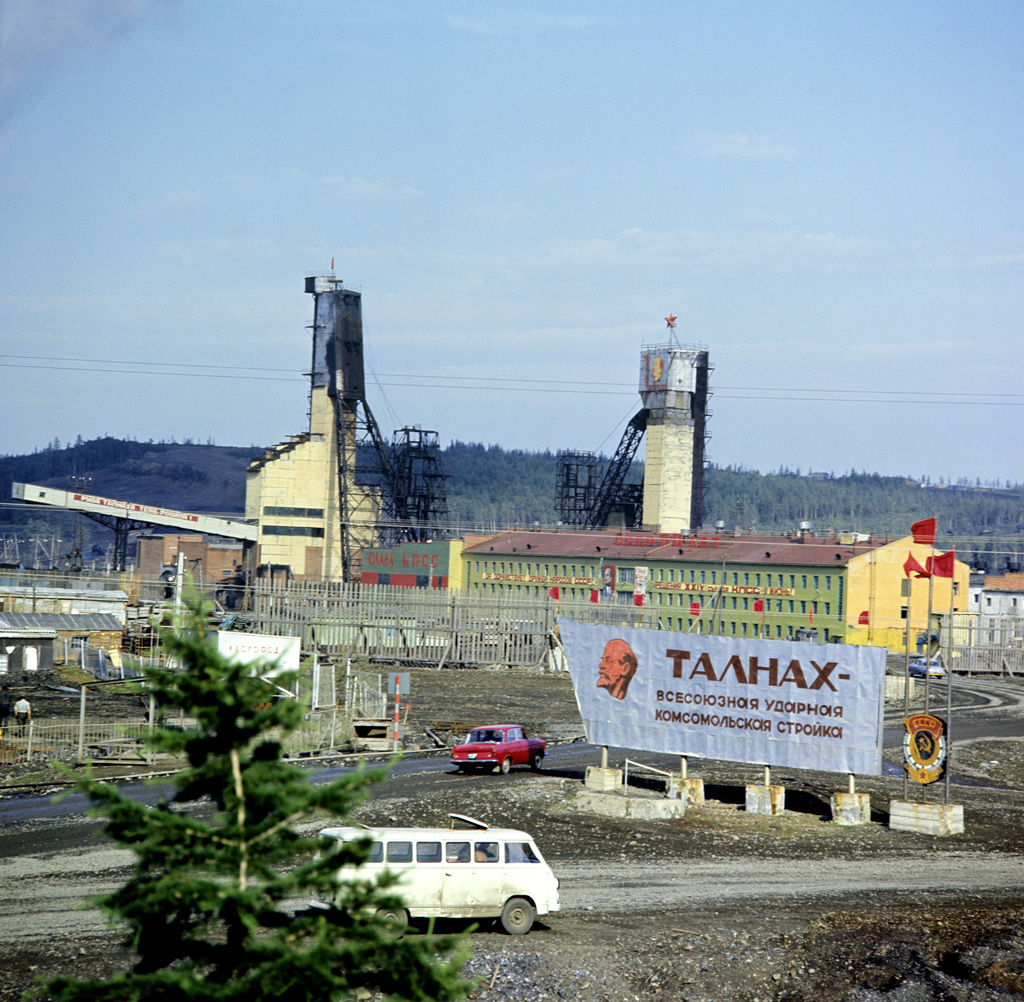 “The Mayak mine”. The Mayak [Beacon] mine, an ore deposit and the All-Union shock construction site staffed by Komsomol [Young Communist League] workers in Talnakh in Russia's Krasnoyarsk Territory.